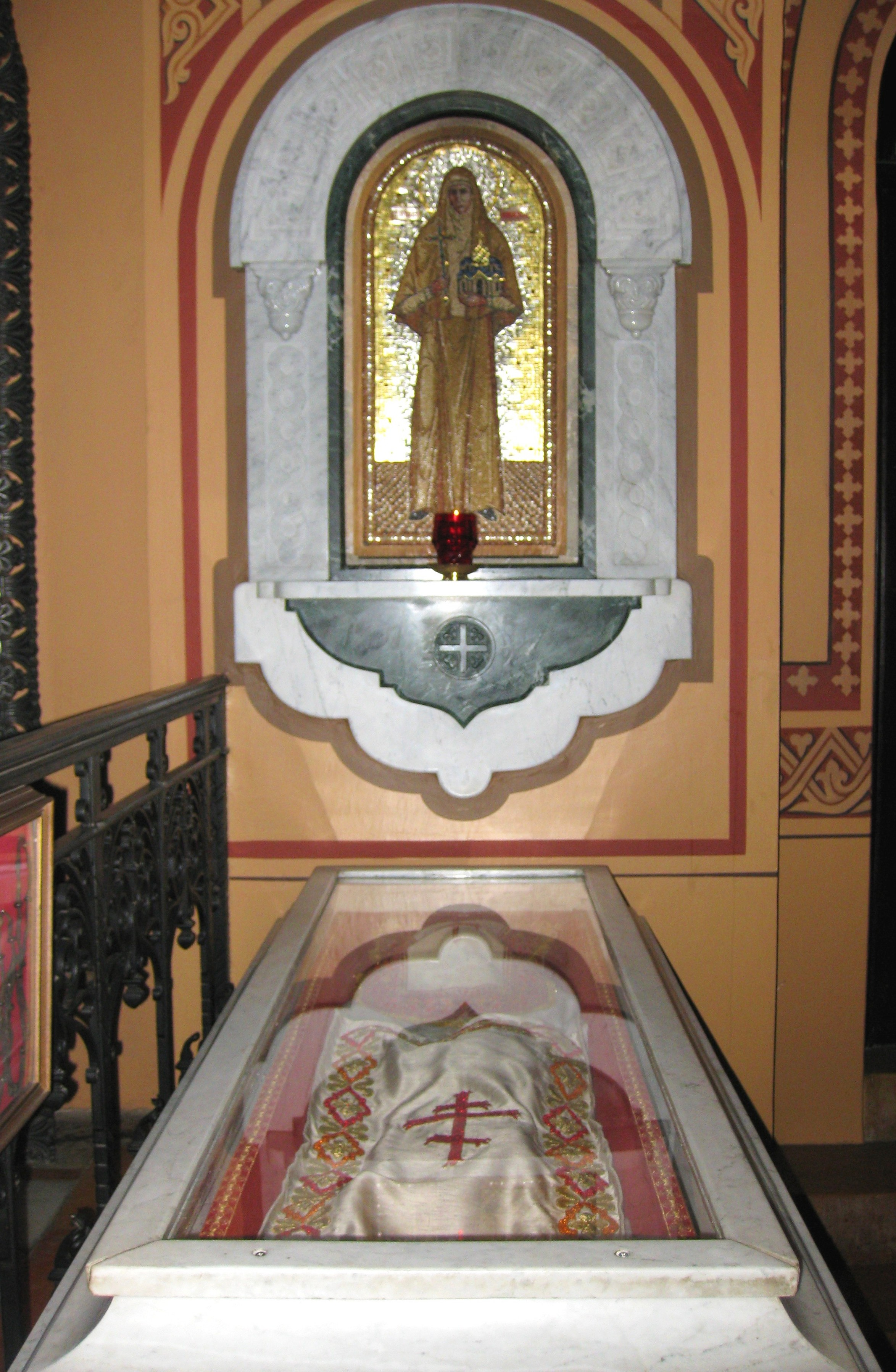 Church of Saint Mary Magdalene כנסיית מריה מגדלנה (כנסיית הבצלים) Tomb of St Elizabeth Feodorovna (1864–1918)